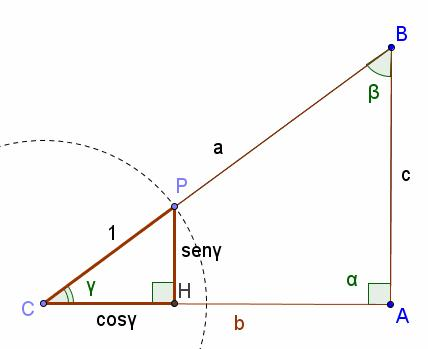 Right triangle